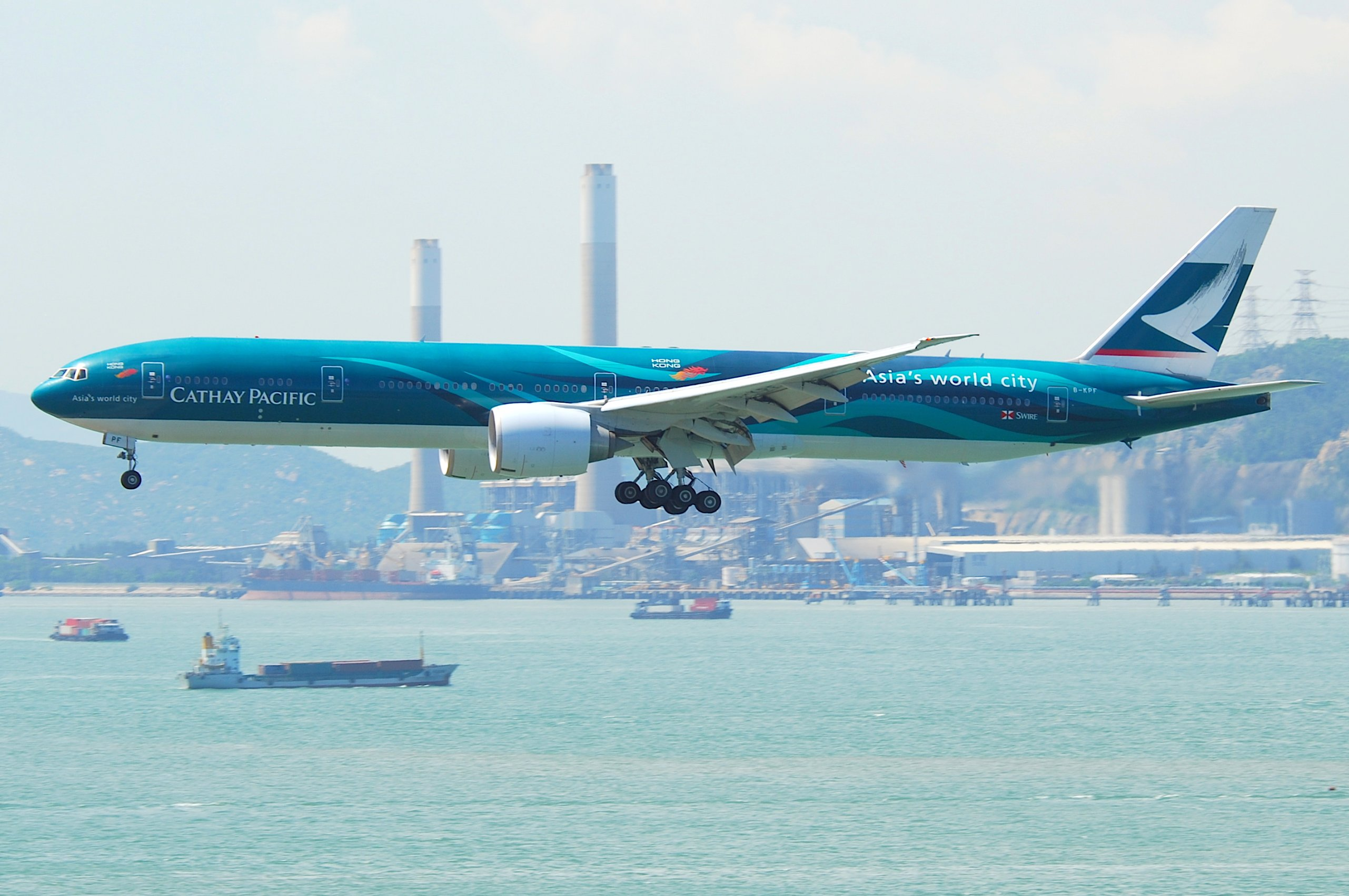 Asia's World City on finals to Chek Lap Kok... This Boeing 767-367 ER took its first flight on January 18, 2008...